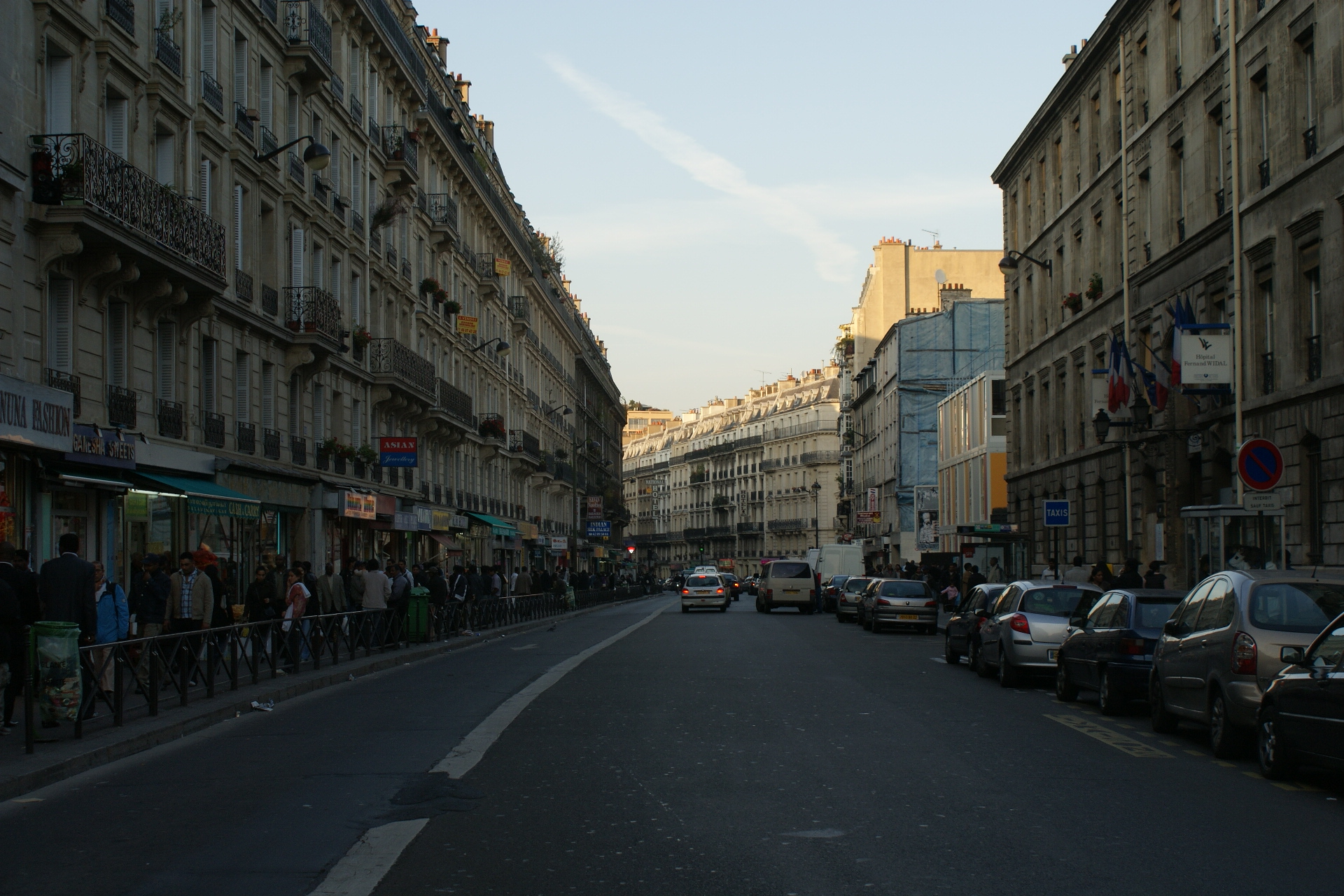 Rue du Faubourg Saint Denis in the south asian district of little Jaffna.